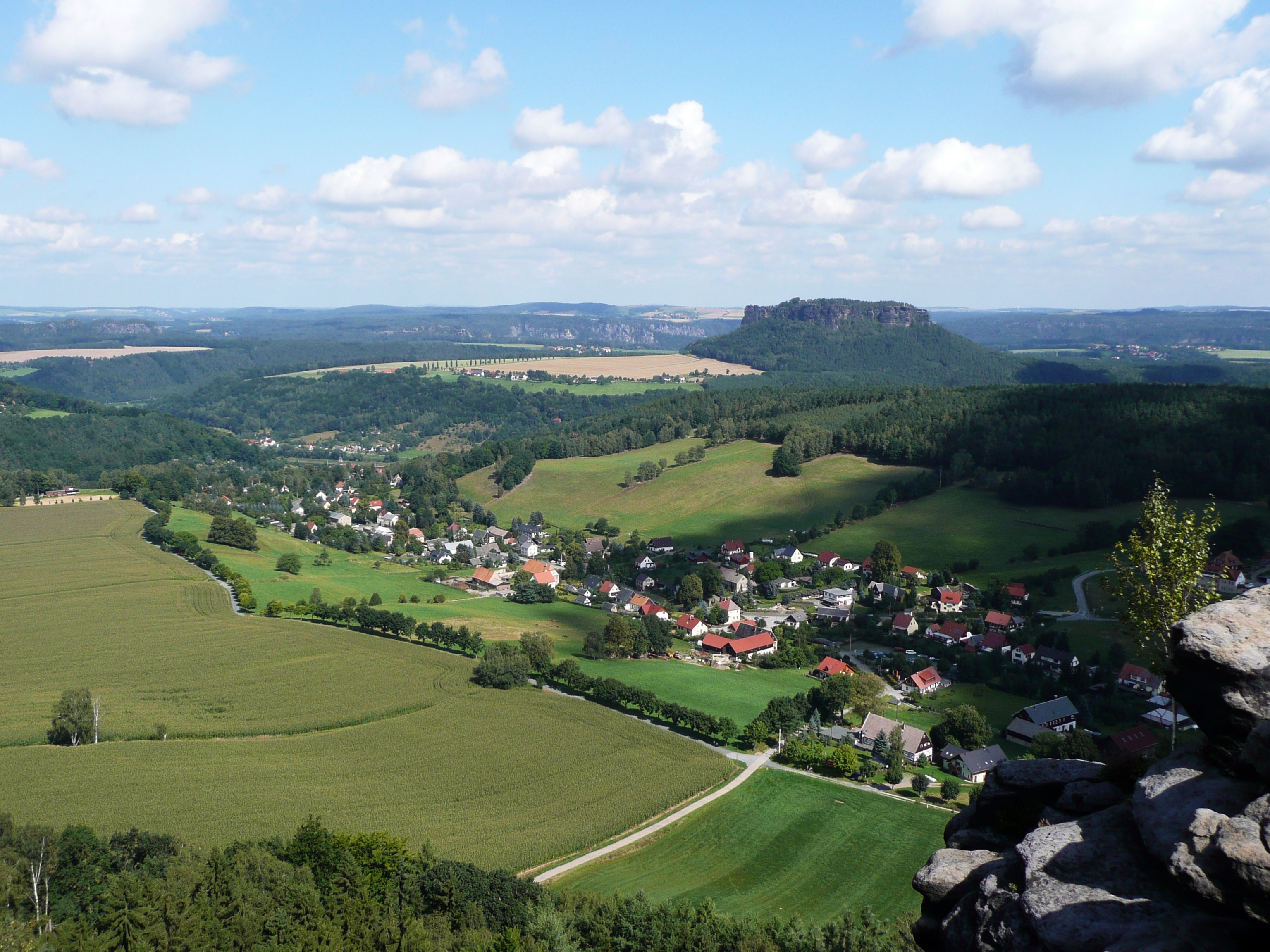 This image shows Pfaffendorf near Königstein with the Lilienstein (415 m) in the background.